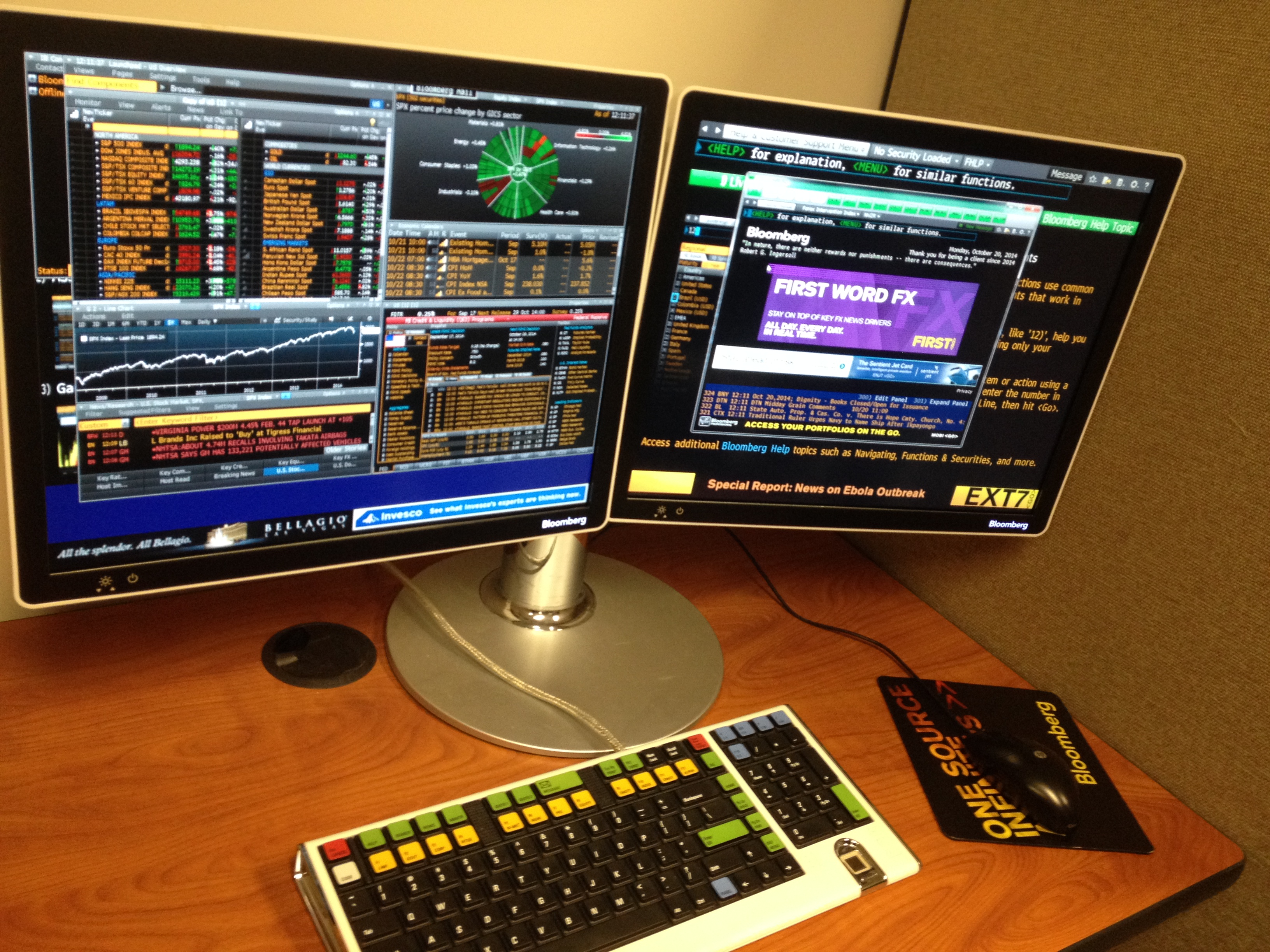 The customized hardware and software set up of a Bloomberg Terminal